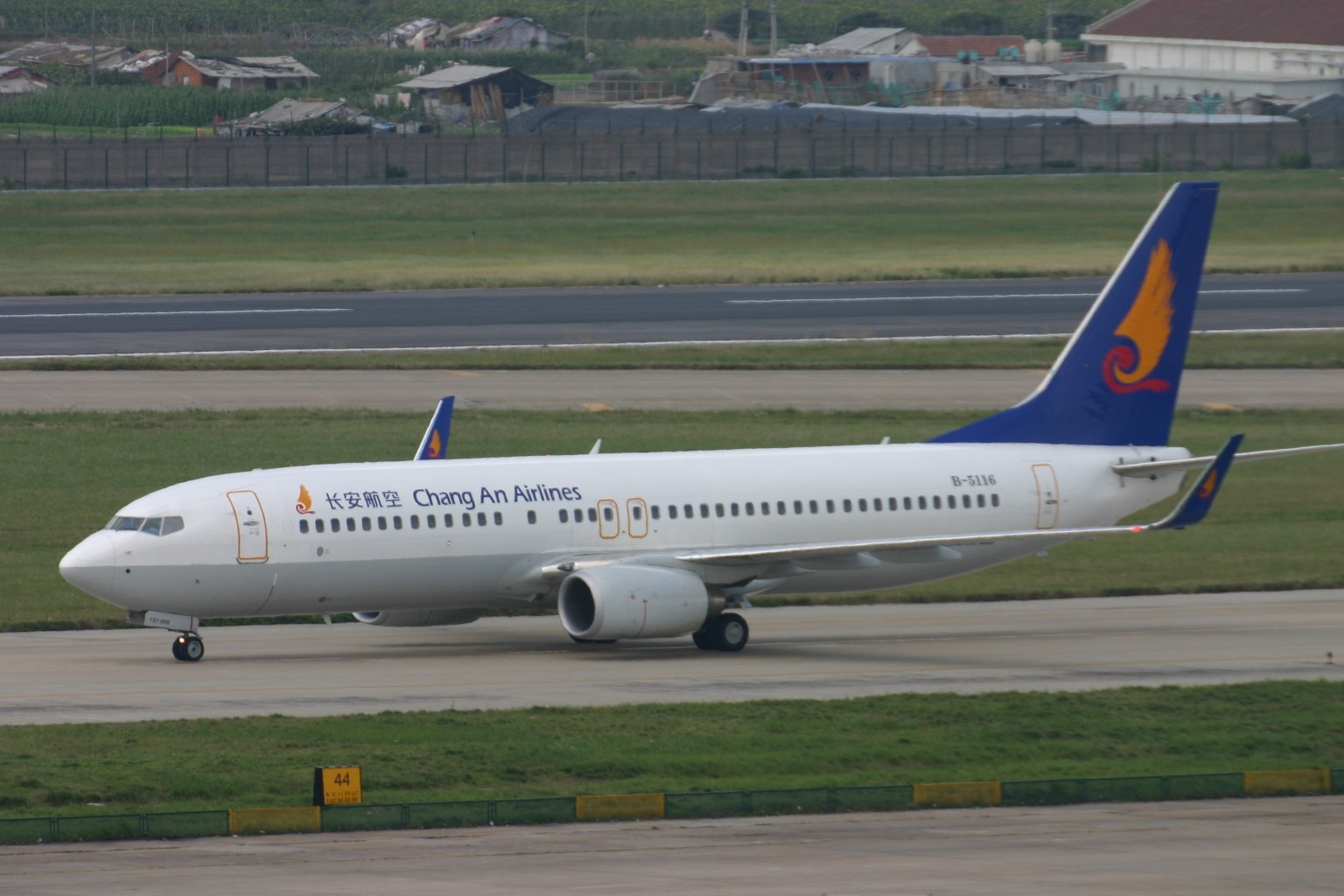 At Shanghai Hongqiao